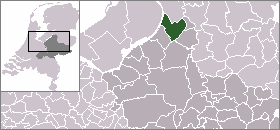 Locator map of Dutch municipalities in Gelderland (LocatieOldebroek.png)